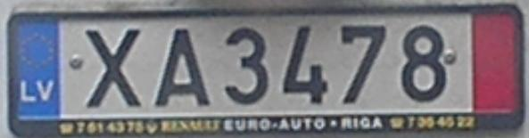 License plate for export from Latvia